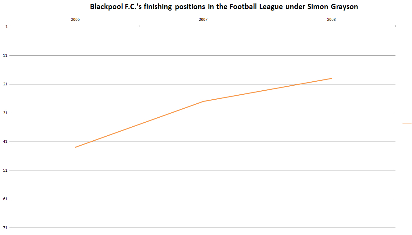 Blackpool F.C.'s finishing positions in the Football League under Simon Grayson